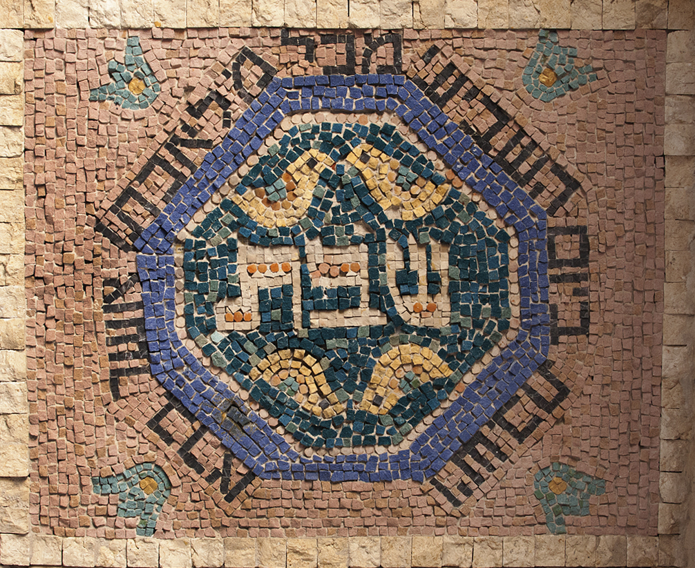 Jerusalem, Beit Habad Gallery Artist: Yael Portugheis. biblical verse Genesis 2:2 : " וַיִּשְׁבֹּת בַּיּוֹם הַשְּׁבִיעִי מִכָּל מְלַאכְתּוֹ אֲשֶׁר עָשָׂה" and He rested on the seventh day from all His work which He had done